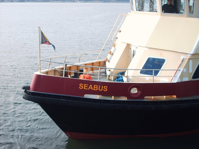 Seabus at Kilcreggan Pier